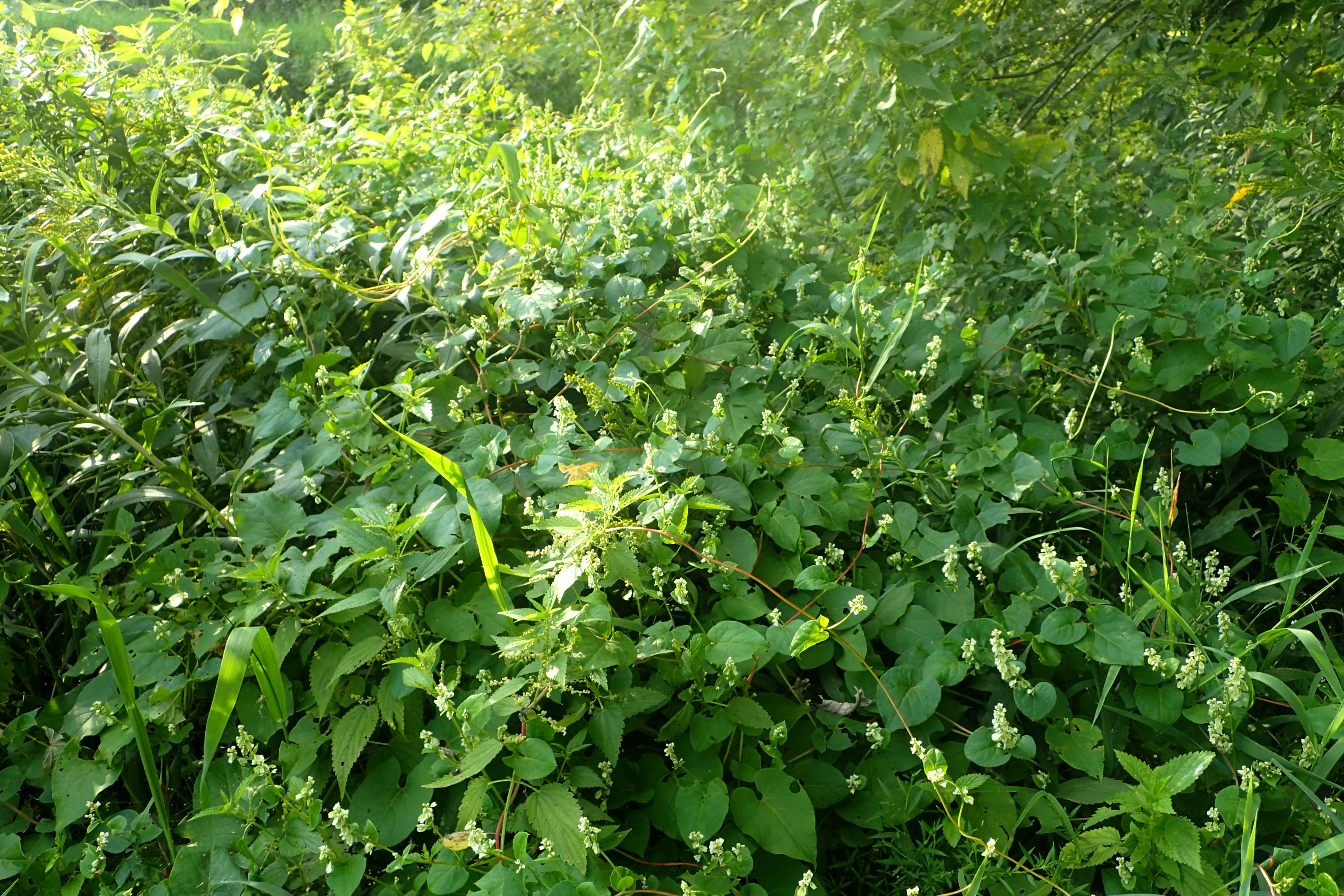 Fallopia scandens, edge of forest on creek east from Broadwell, Illinois